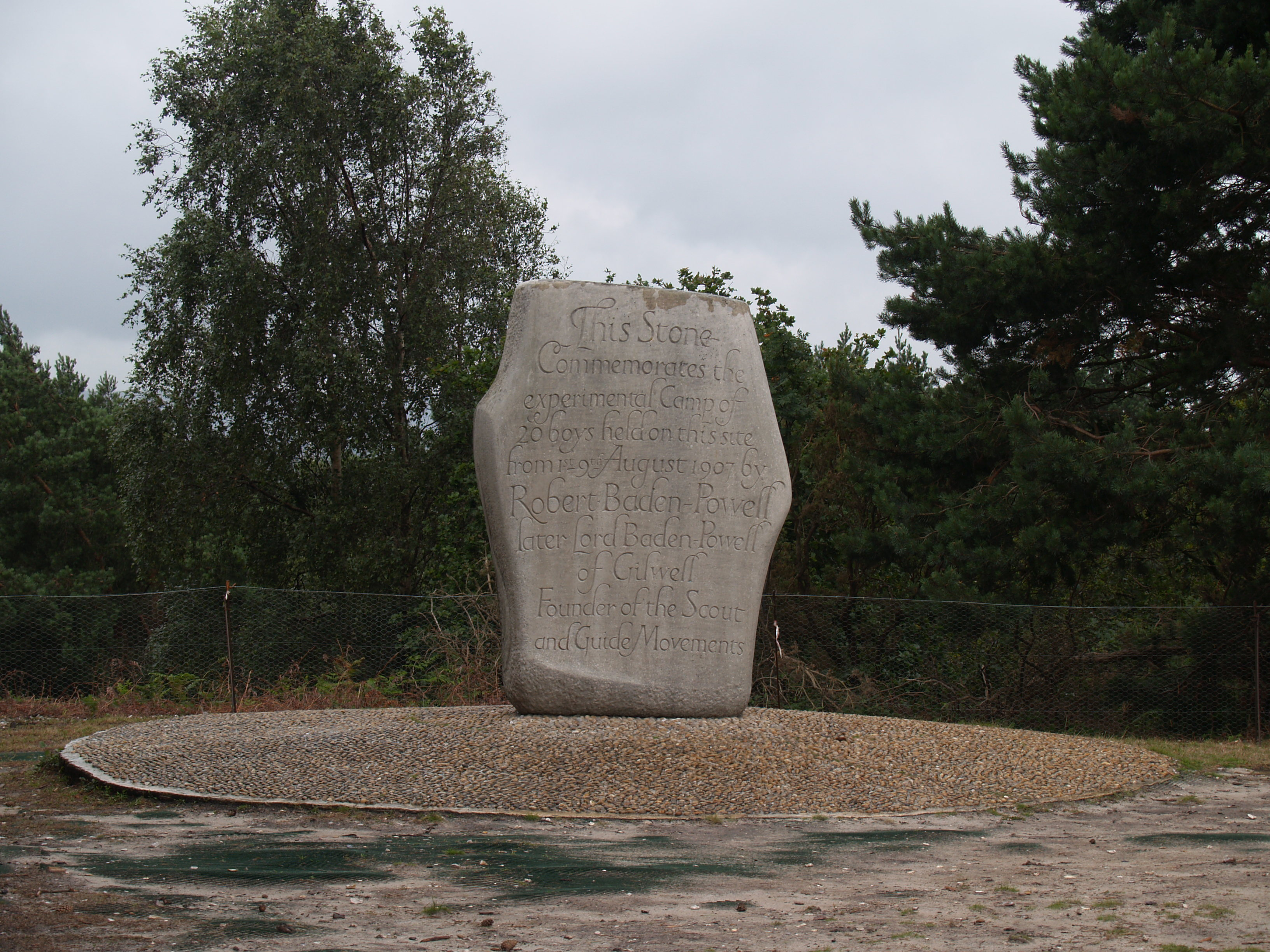 Brownsea Island Commerative Stone